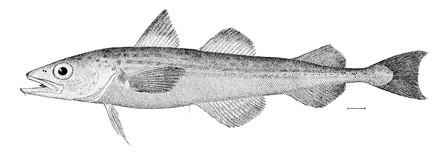 The Alaska Pollock, Theragra chalcogramma (Pallas, 1814). The specimen #27684, U. S. National Museum, collected at Pirate Cove, Shumagin Islands, Alaska, by William H. Dall in 1880.